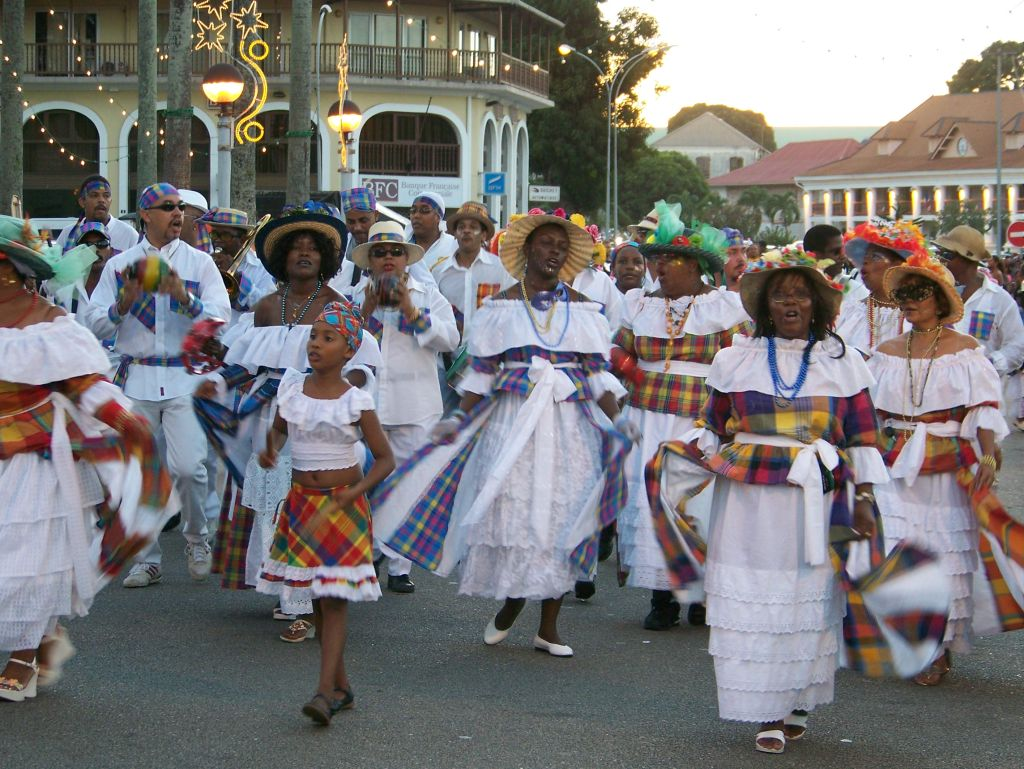 Creole women in traditional wear